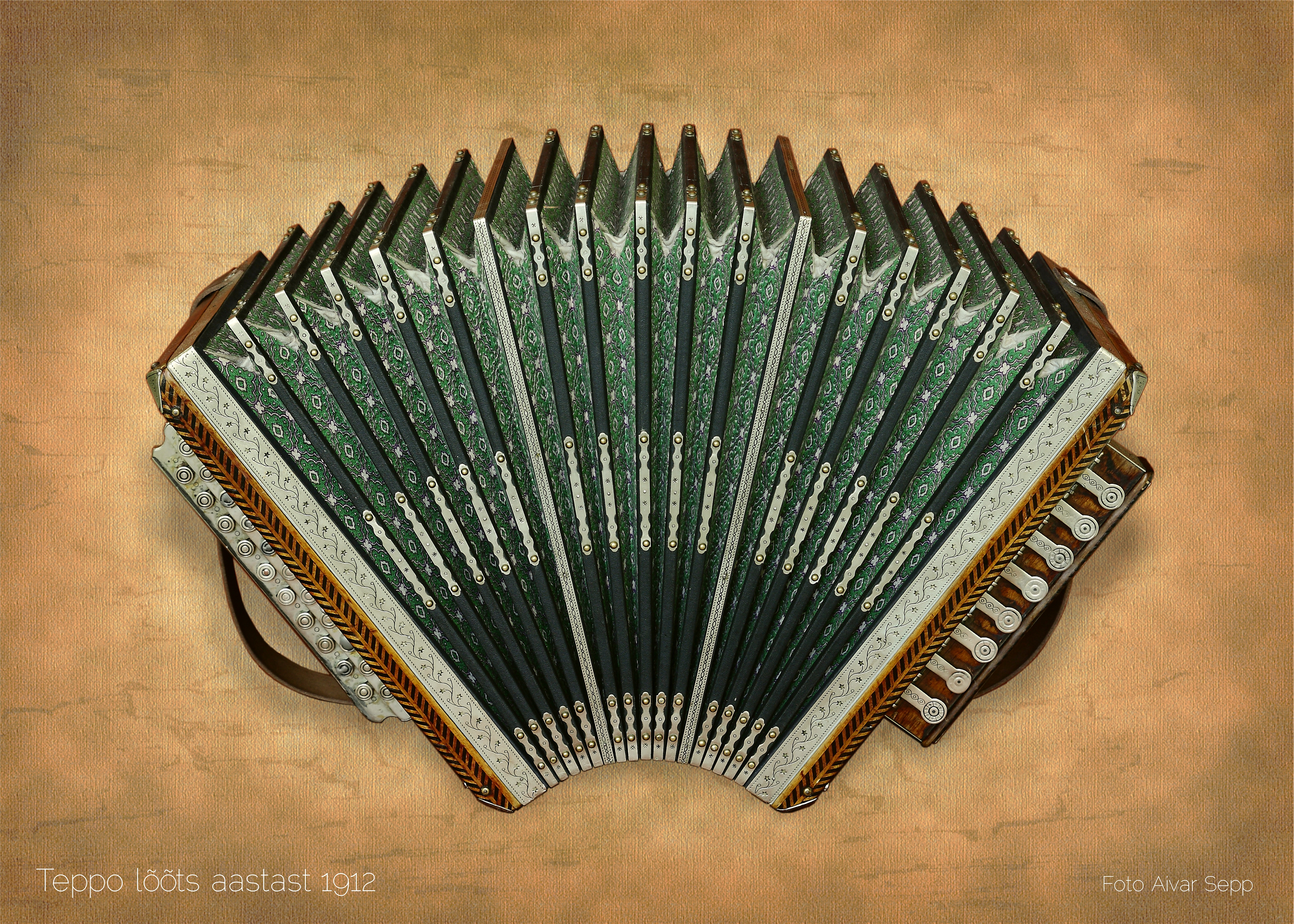 Diatonic button accordion (concertina) made in 1912 by August Teppo (Estonia).